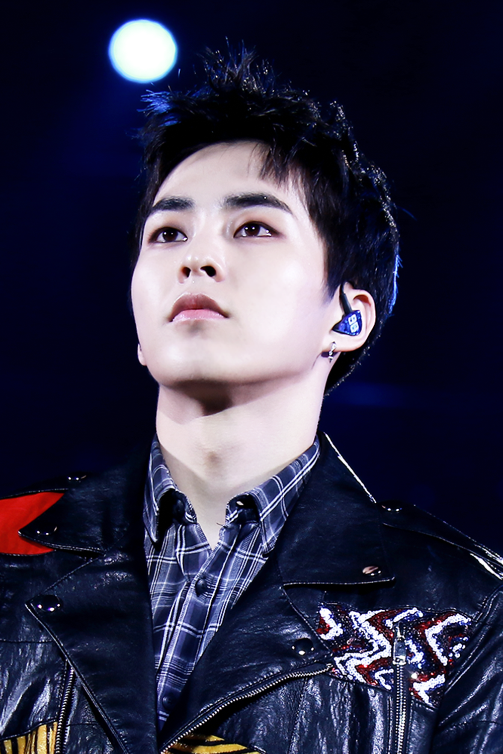 Xiumin at the Nature Republic fan meeting in Seoul on February 3, 2018.